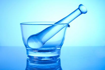 Improving Healths